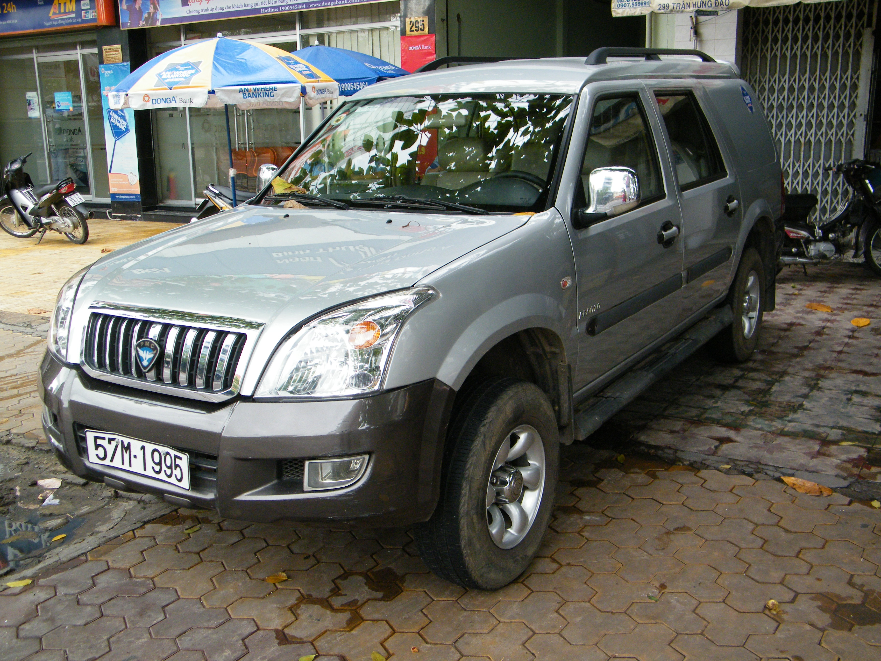 North Korean Pyeonghwa Pronto in Vietnam 2012